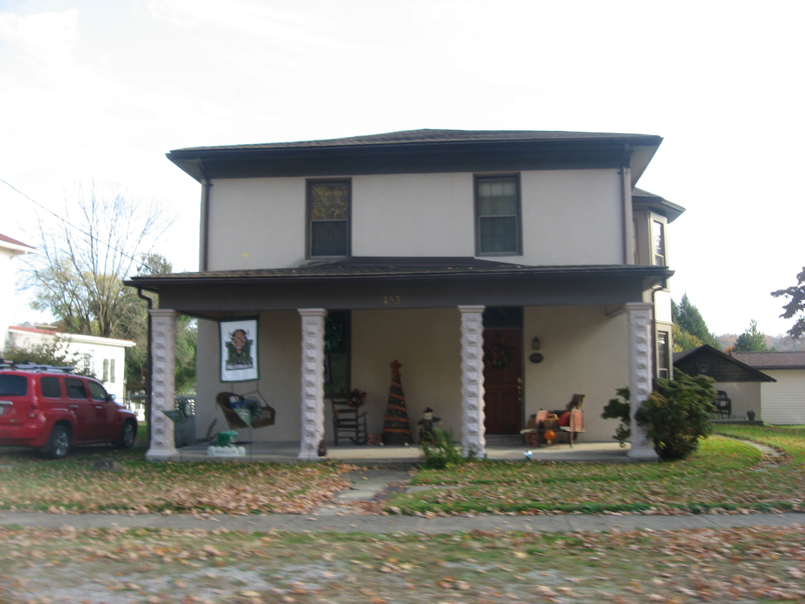 Front of the William H. Grant House, located at 453 Grant Street in Middleport, Ohio, United States. Built in 1855, it is listed on the National Register of Historic Places.